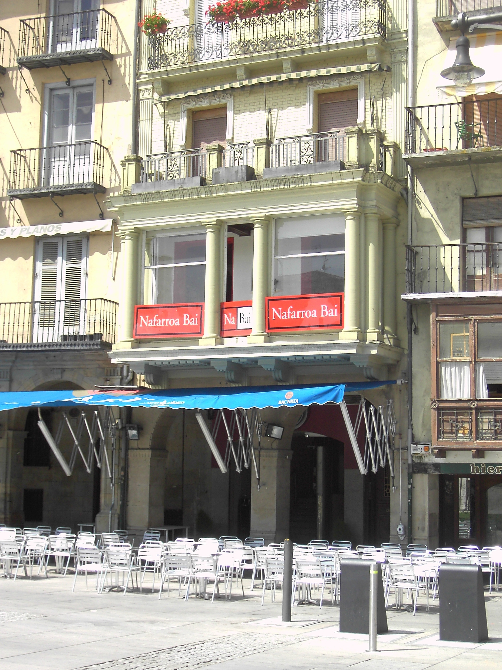 Headquarters of Nafarroa Bai political party, Pamplona.